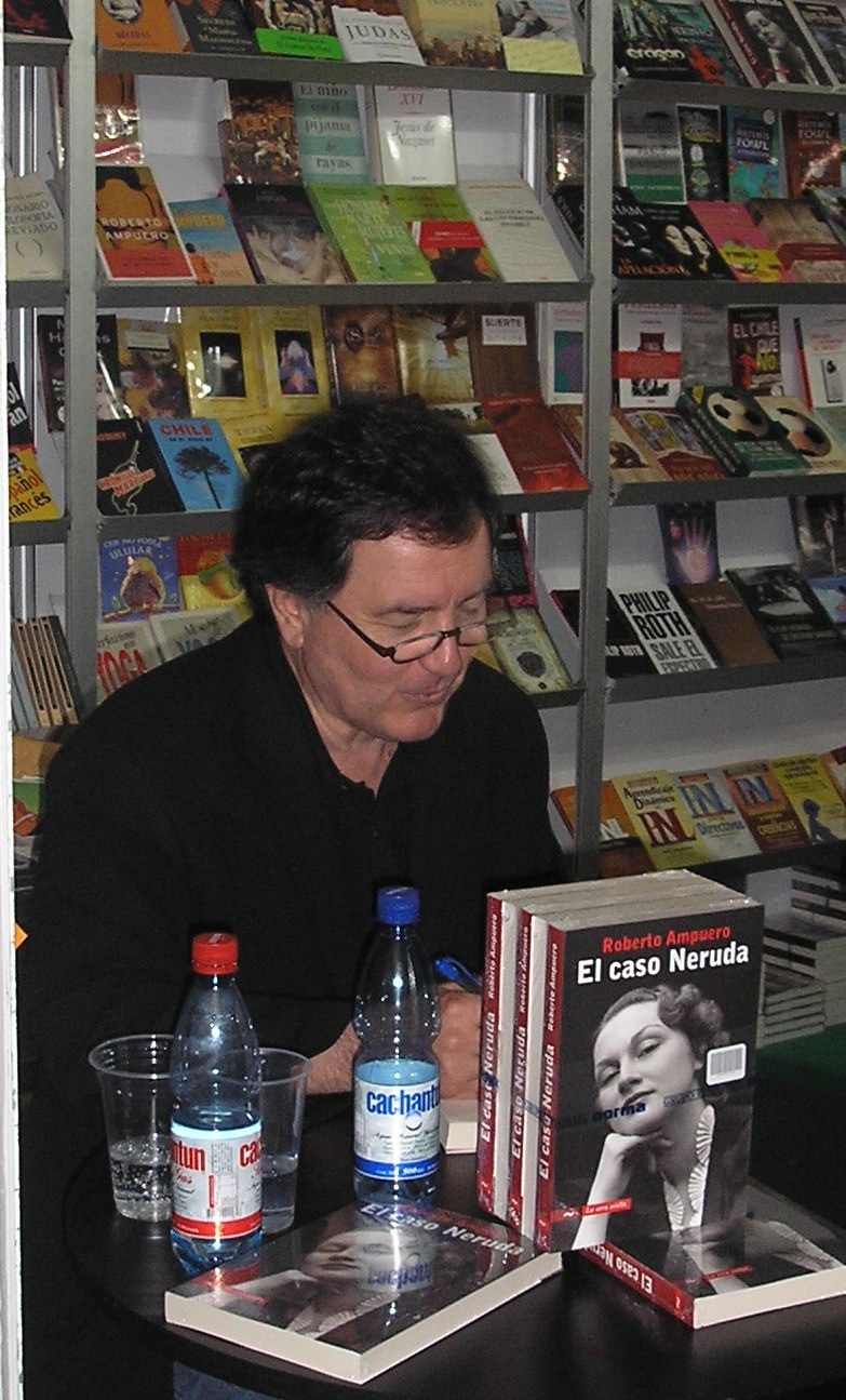 Roberto Ampuero firmando libros en la Feria Chilena del Libro de Viña del Mar. En el Liceo de Niñas de 2 norte con Libertad